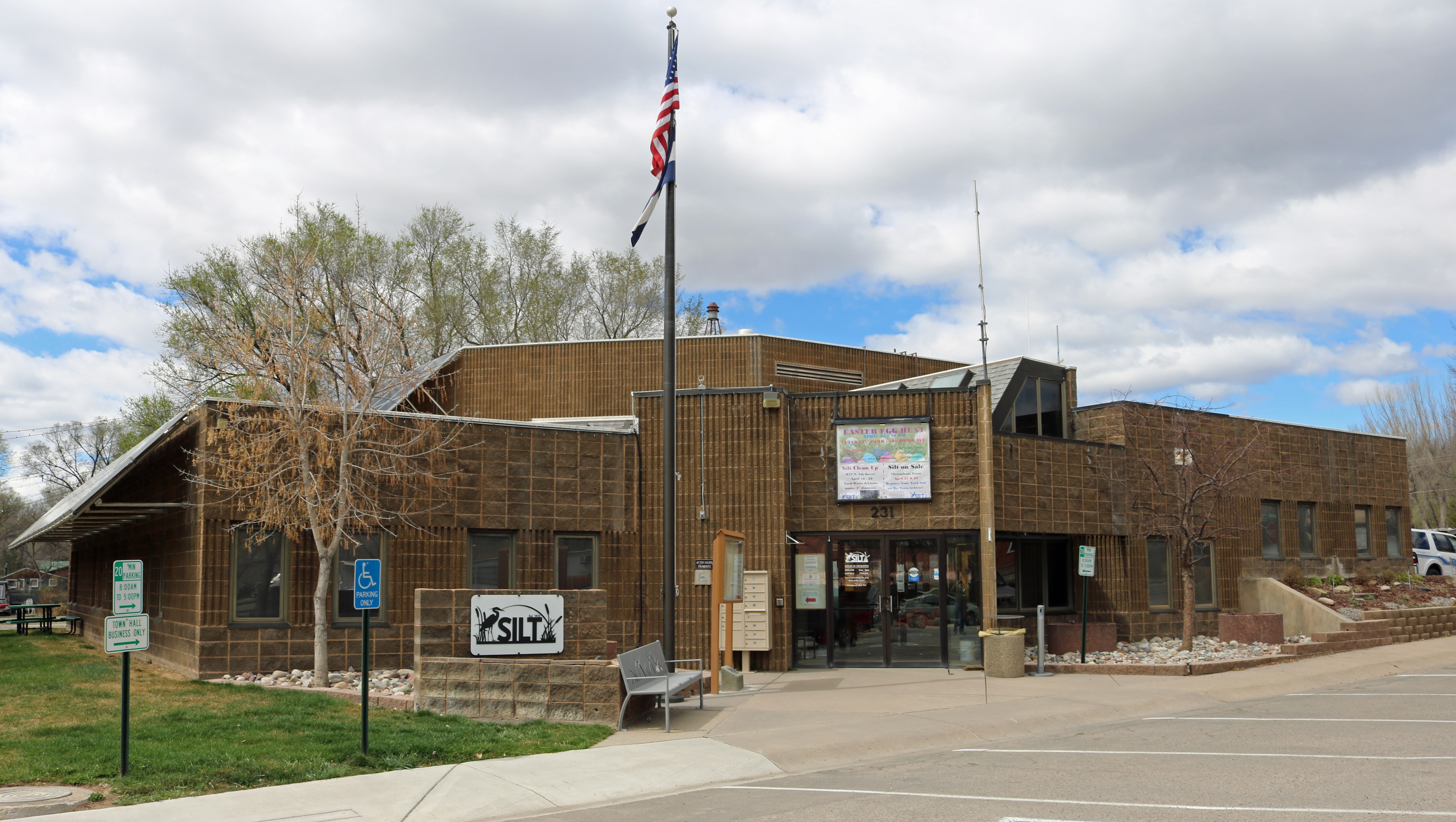 The Silt, Colorado Town Hall, located at 231 North 7th Street in Silt, Colorado.